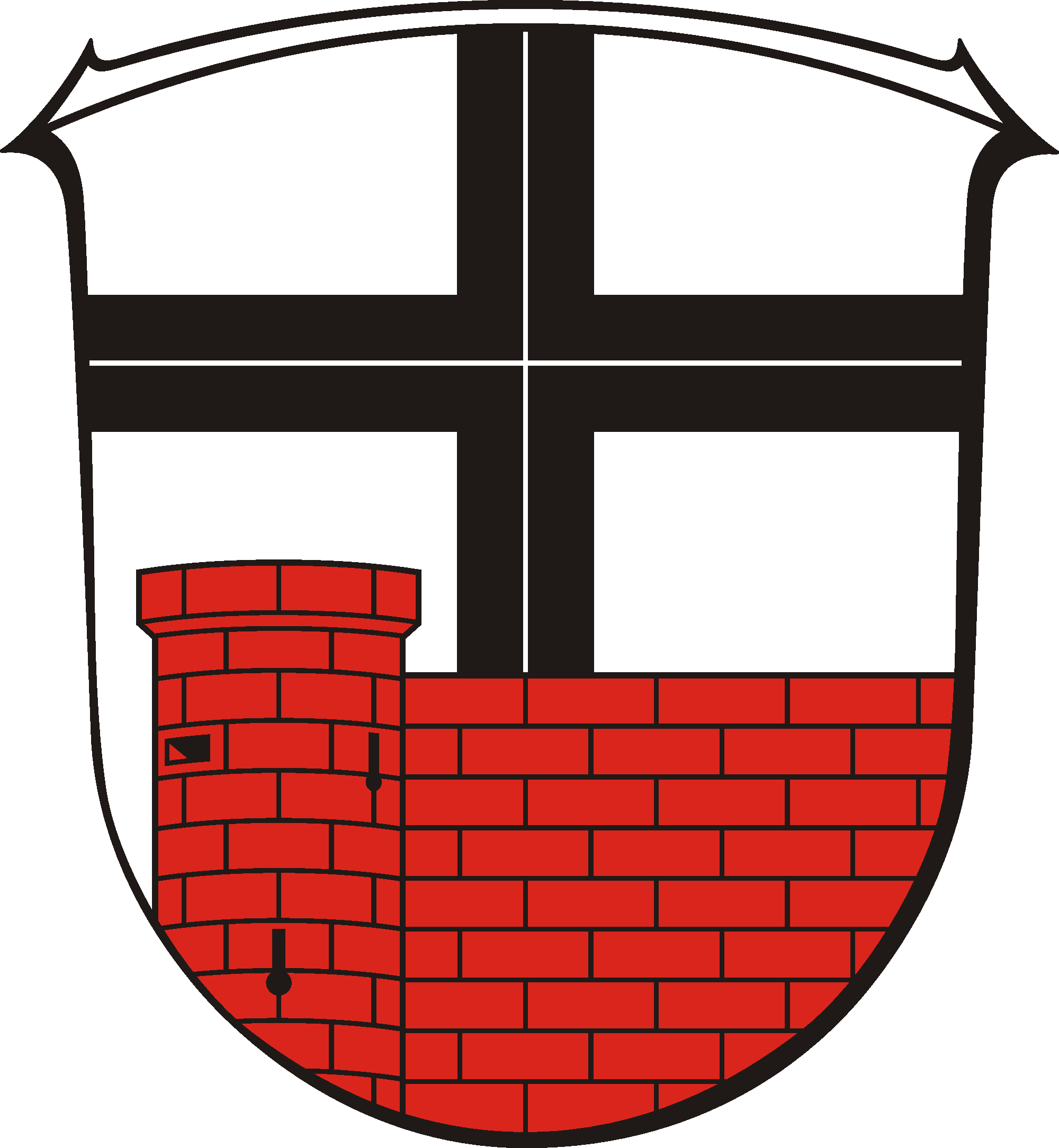 Coat of Arms of Rasdorf